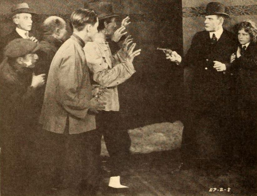 Still from the American film serial The Branded Four (1920) with (at right) Ben F. Wilson and Neva Gerber, apparently from Episode 2, on page 64 of the August 21, 1920 Exhibitors Herald.